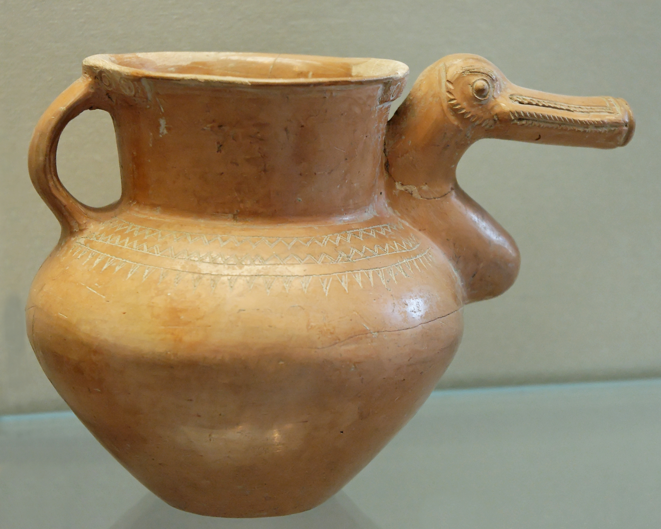 Vase with duck-shaped spout and triangle decoration on the shoulder. Lustred and incised terracotta, 8th century BC. From the Ziwiye treasure, Iran.